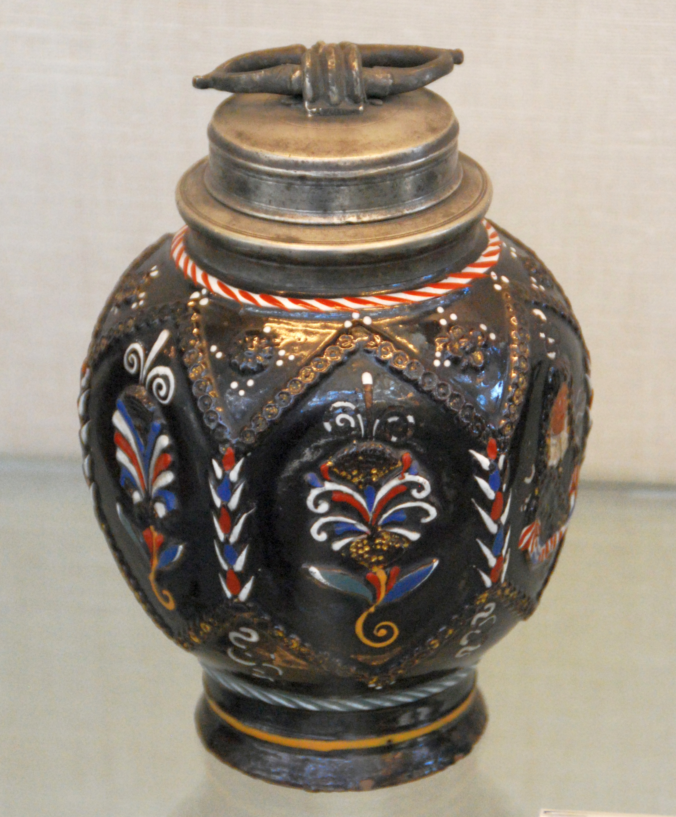 Dippoldiswalde stonware bowl with porcelain enamel painting and threaded cover of tin from master craftsman Hanns Klemm, 2nd half of 17th century; Museum August-Kestner in Hannover (Germany), Inv.-No. 1913.51